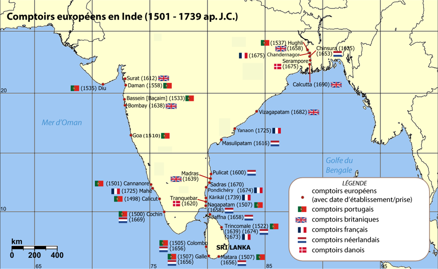 Map of India with Sri Lanka, illustrating locations of European settlements in the subcontinent between 1501 and 1739 CE.